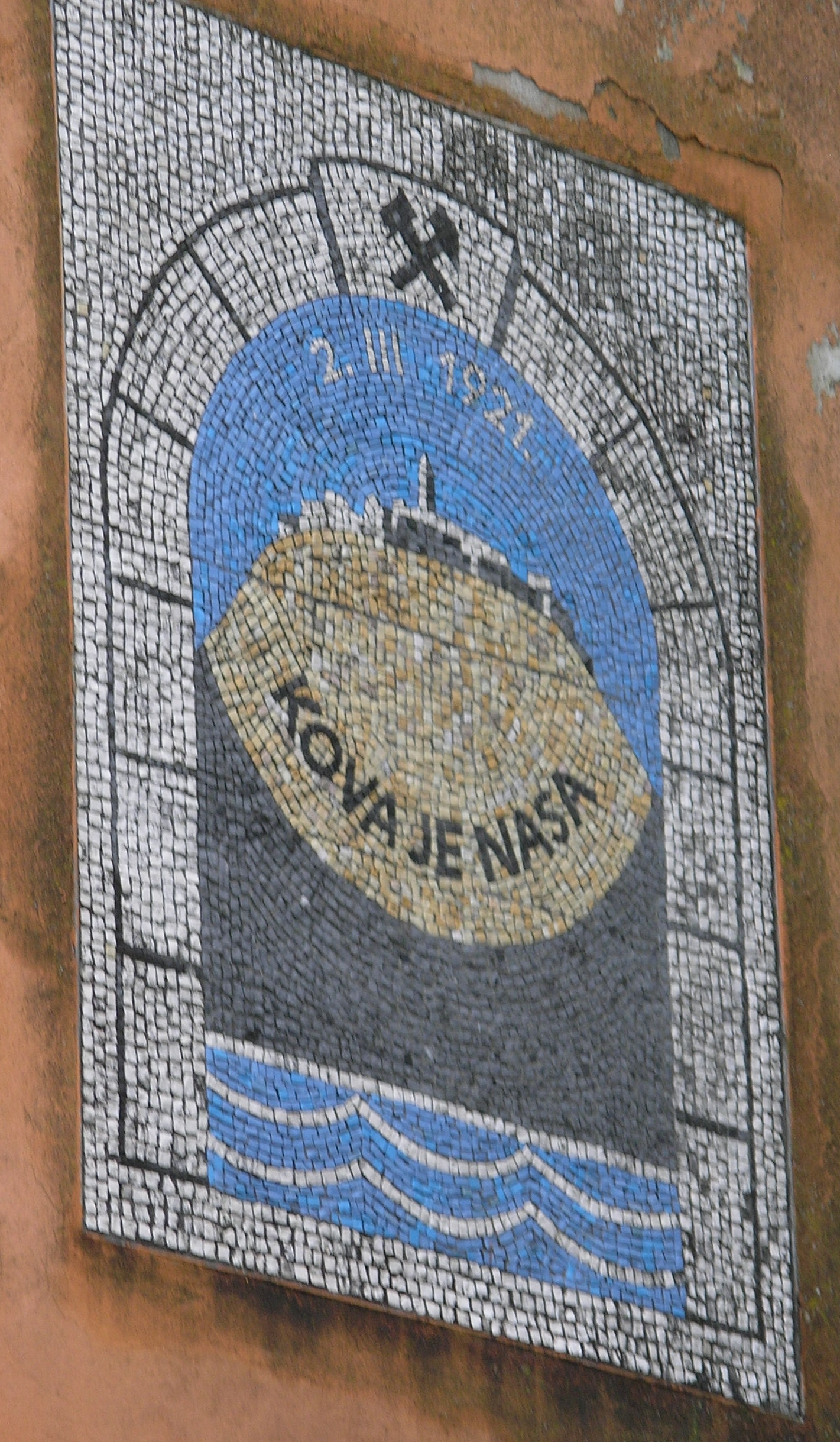 A mosaic commemorating the 1921 Labin miners revolt. Slogan reads "The ore is ours"